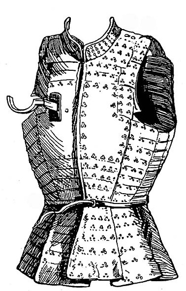 Jakob von Ems brigandine (end of 15 c) presumably italian work